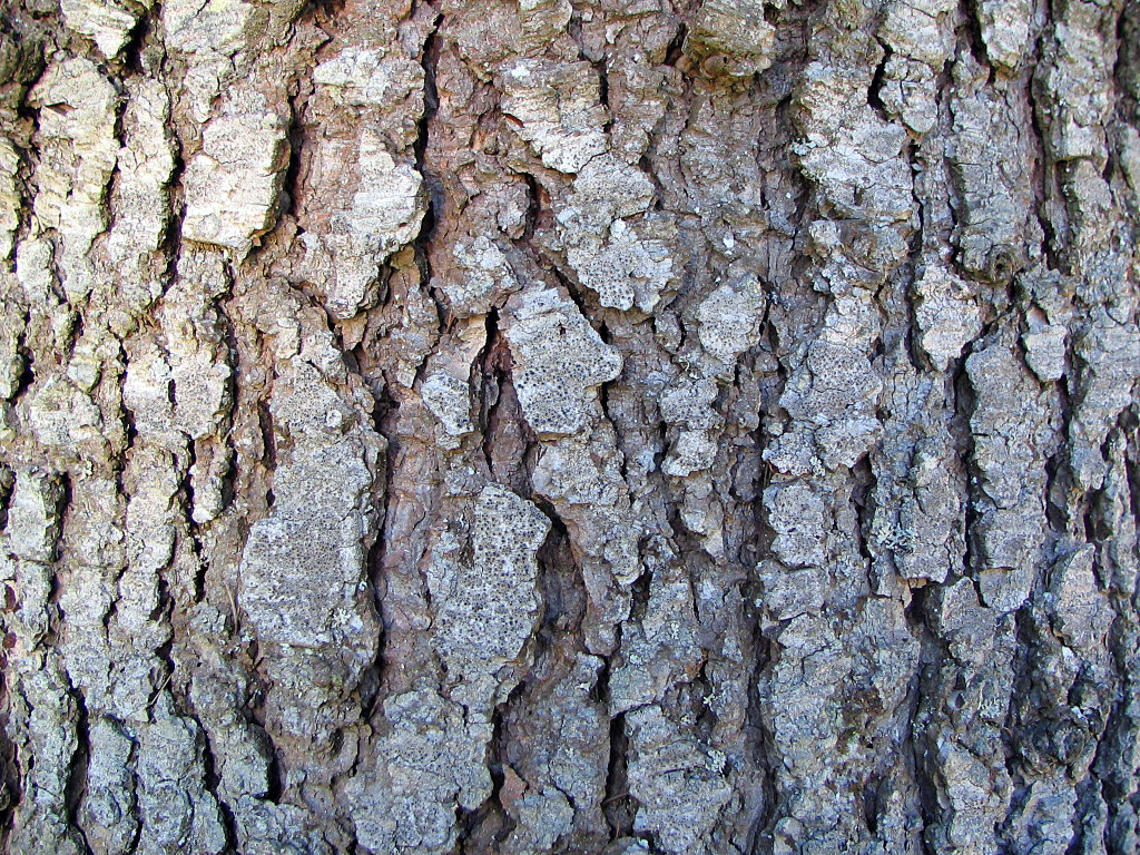 Bark of Picea abies